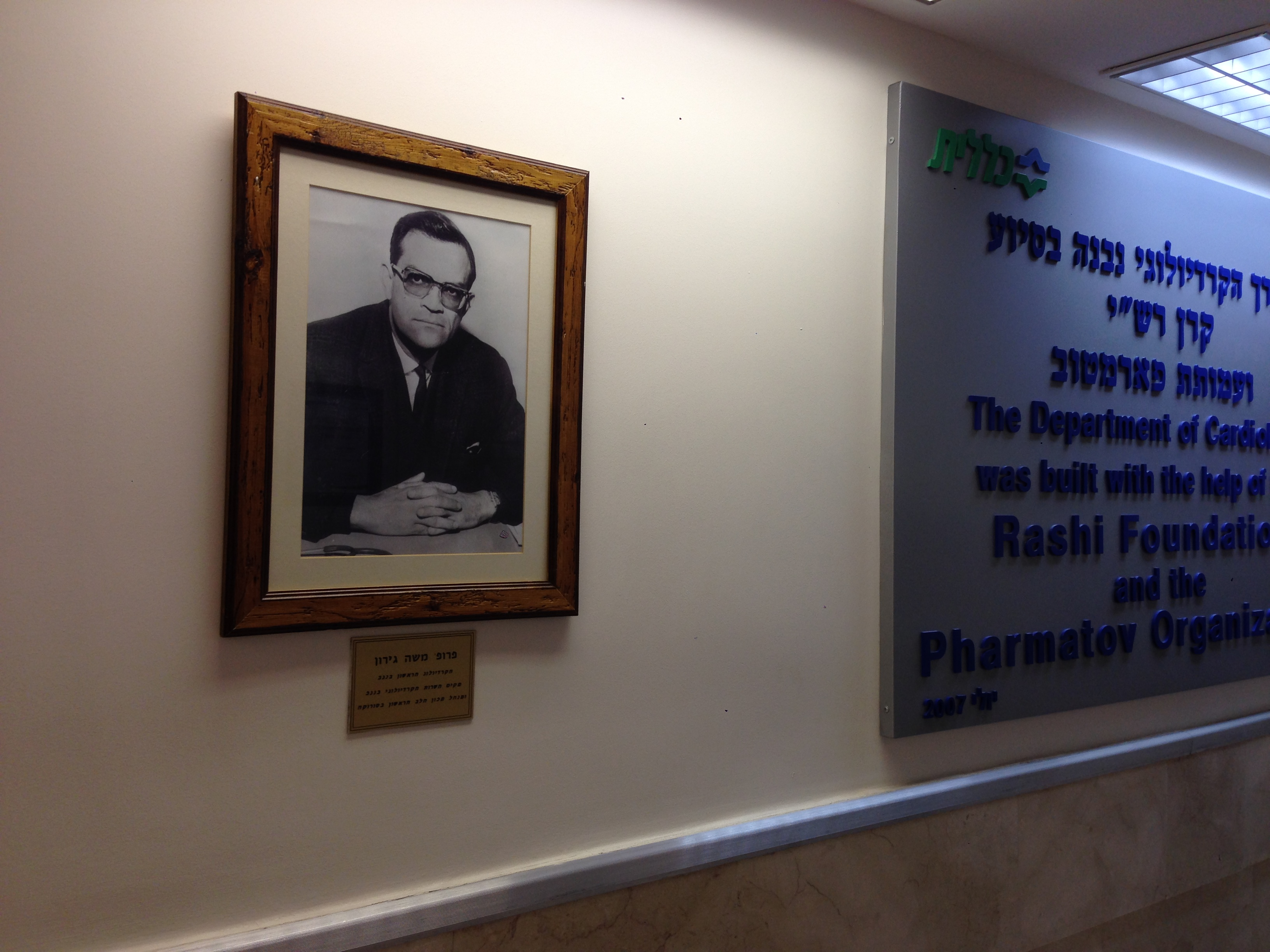 Gueron's portrait at the Division of Cardiology in Soroka Medical Center, December 2014